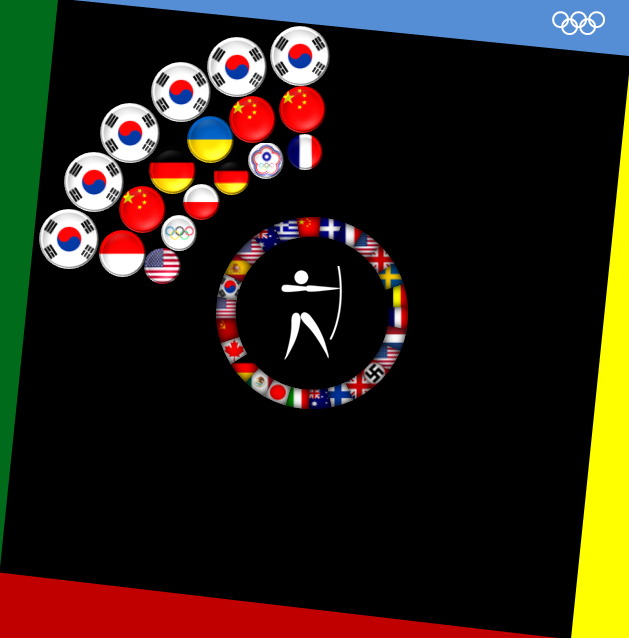 Results of Women's Team Archery at the summer olympics